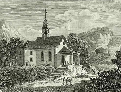 Winkelriedkapelle (Drachenkapelle), Ennetmoos, Nidwalden.